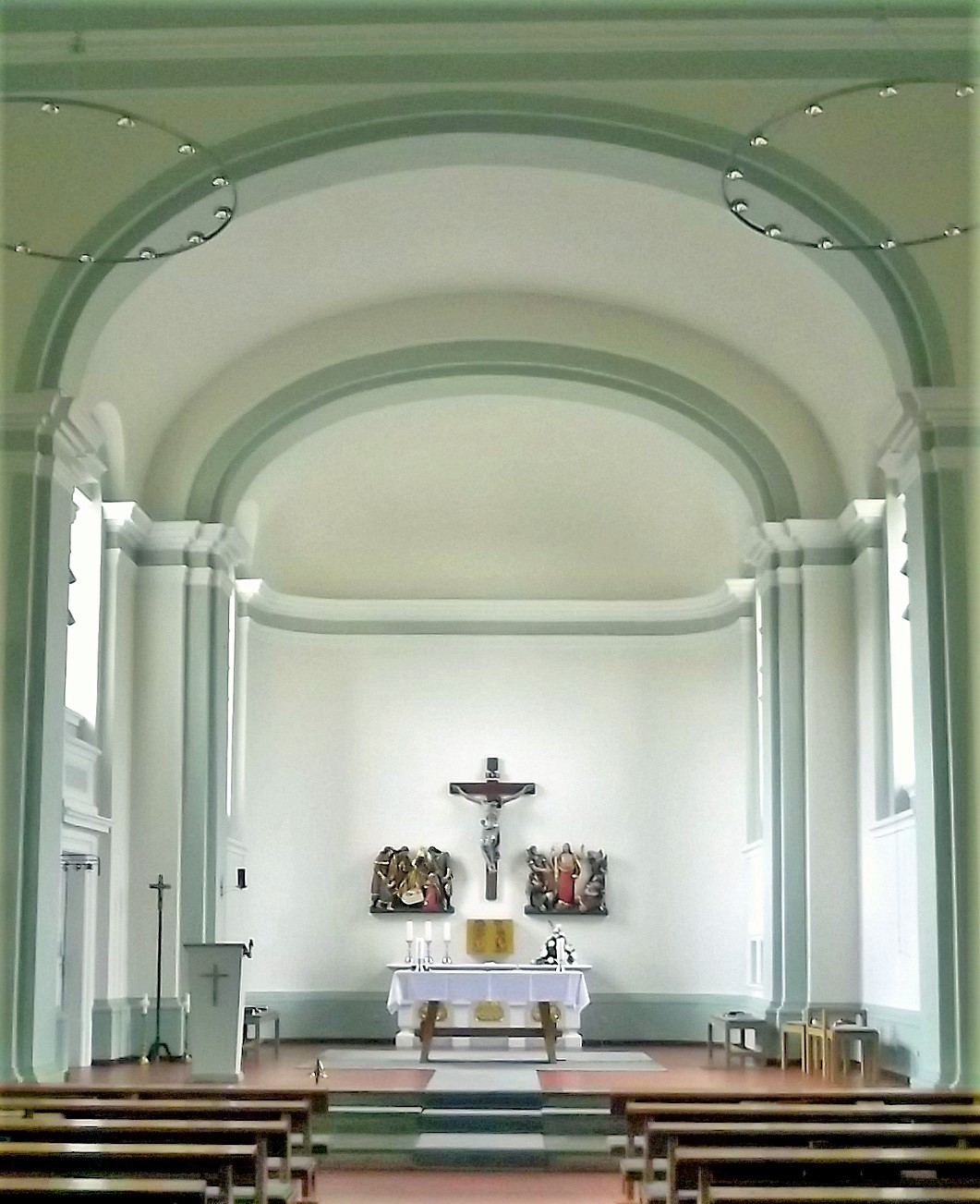 Interior of the roman catholic church in Bachem, Saarland, Germany